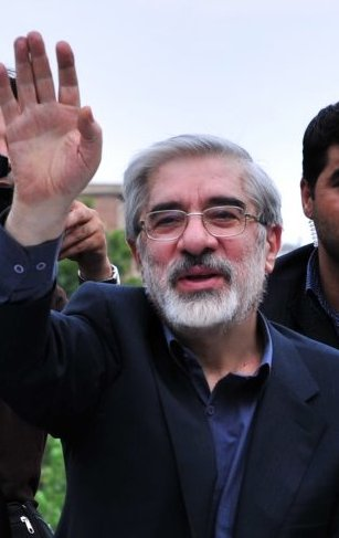 Silent demonstration for saying condolence to family of this week martyrs